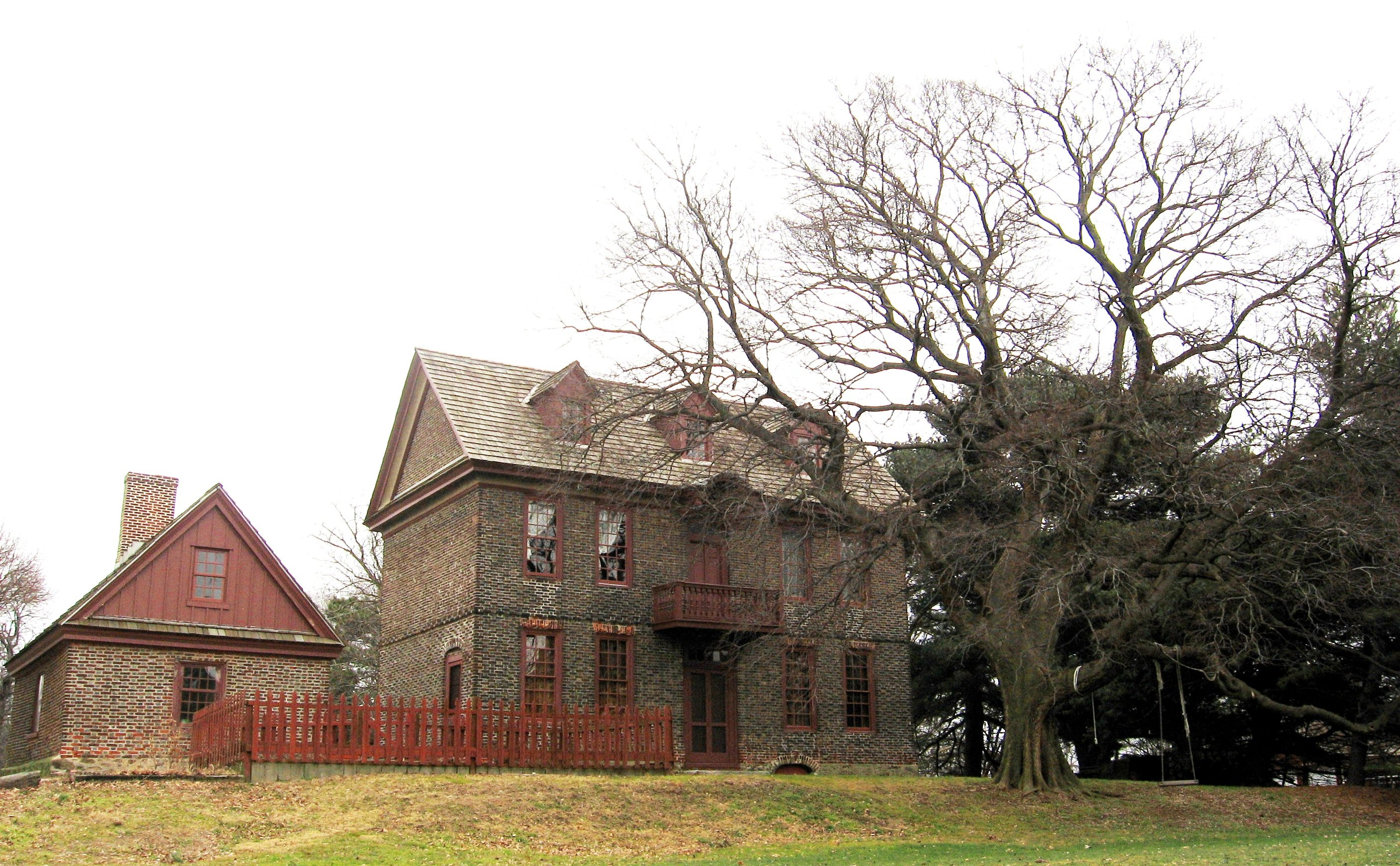 Bellaire Manor (Samuel Preston House) Located in Franklin D. Roosevelt Park ("The Lakes"), 2000 Pattison Avenue, Philadelphia, PA 19145